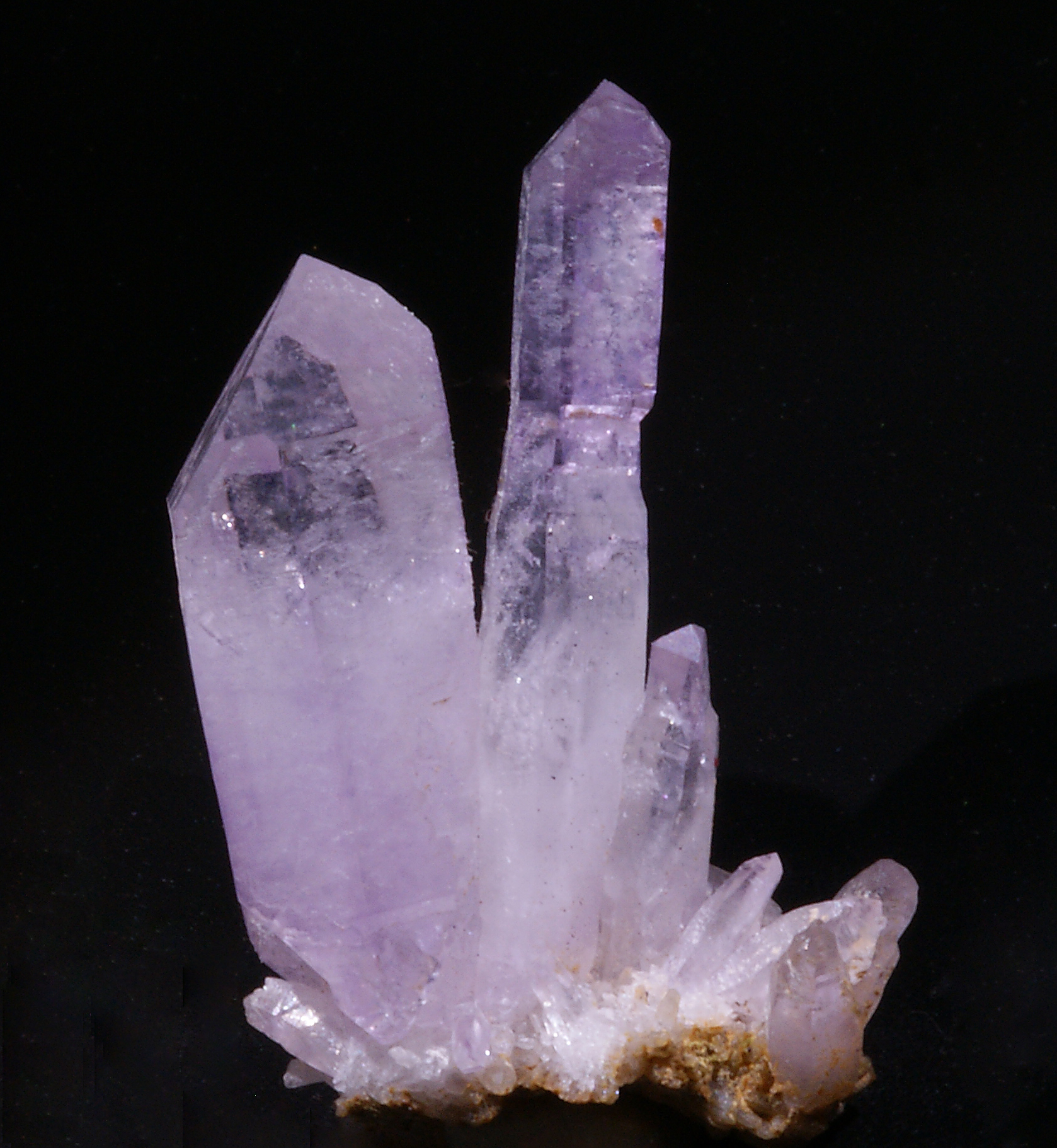 Amethyste - Veracruz - Guerrero - Mexico (5x3cm)